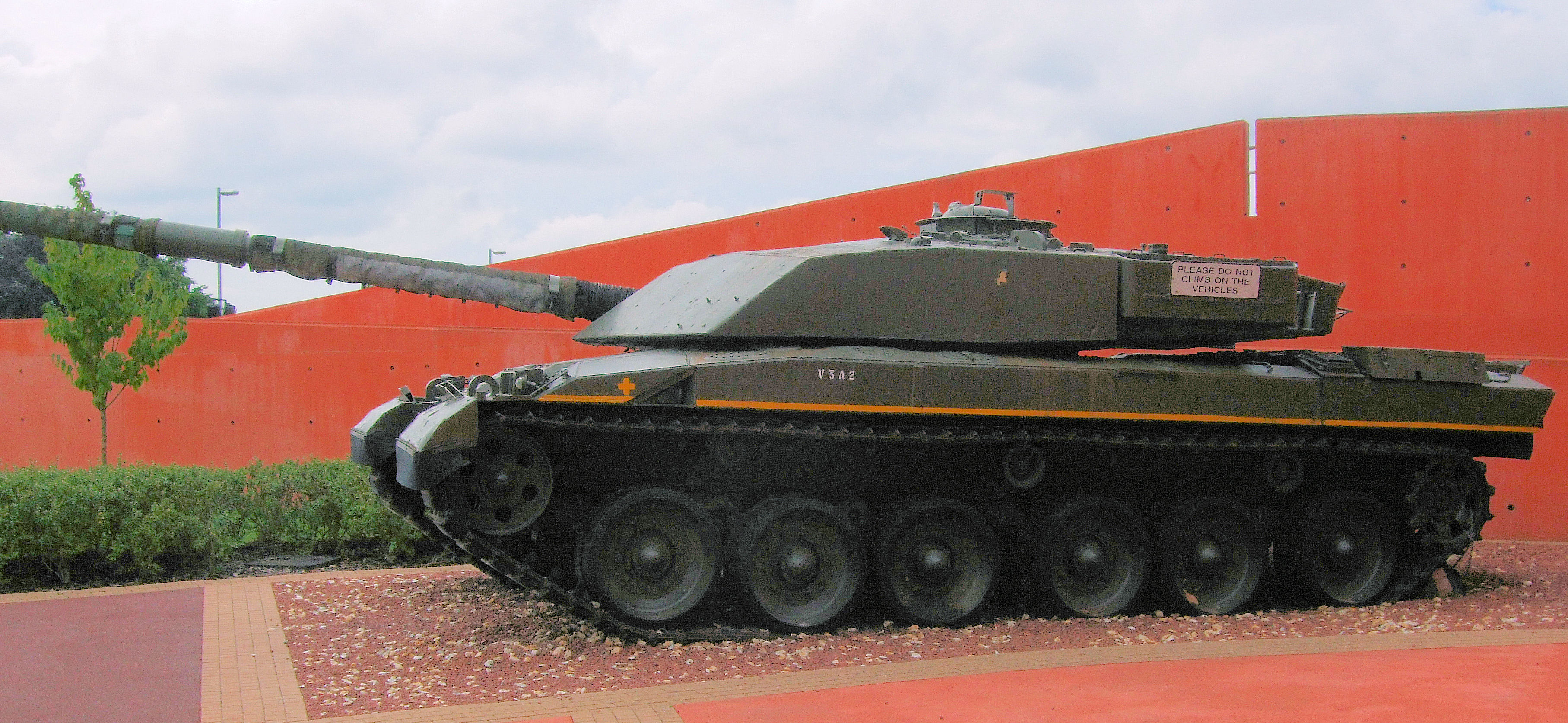 The British FV4030/4 Challenger 1, was the main battle tank (MBT) of the British Army from 1983 to the mid 1990s, when it was superseded by the Challenger 2.